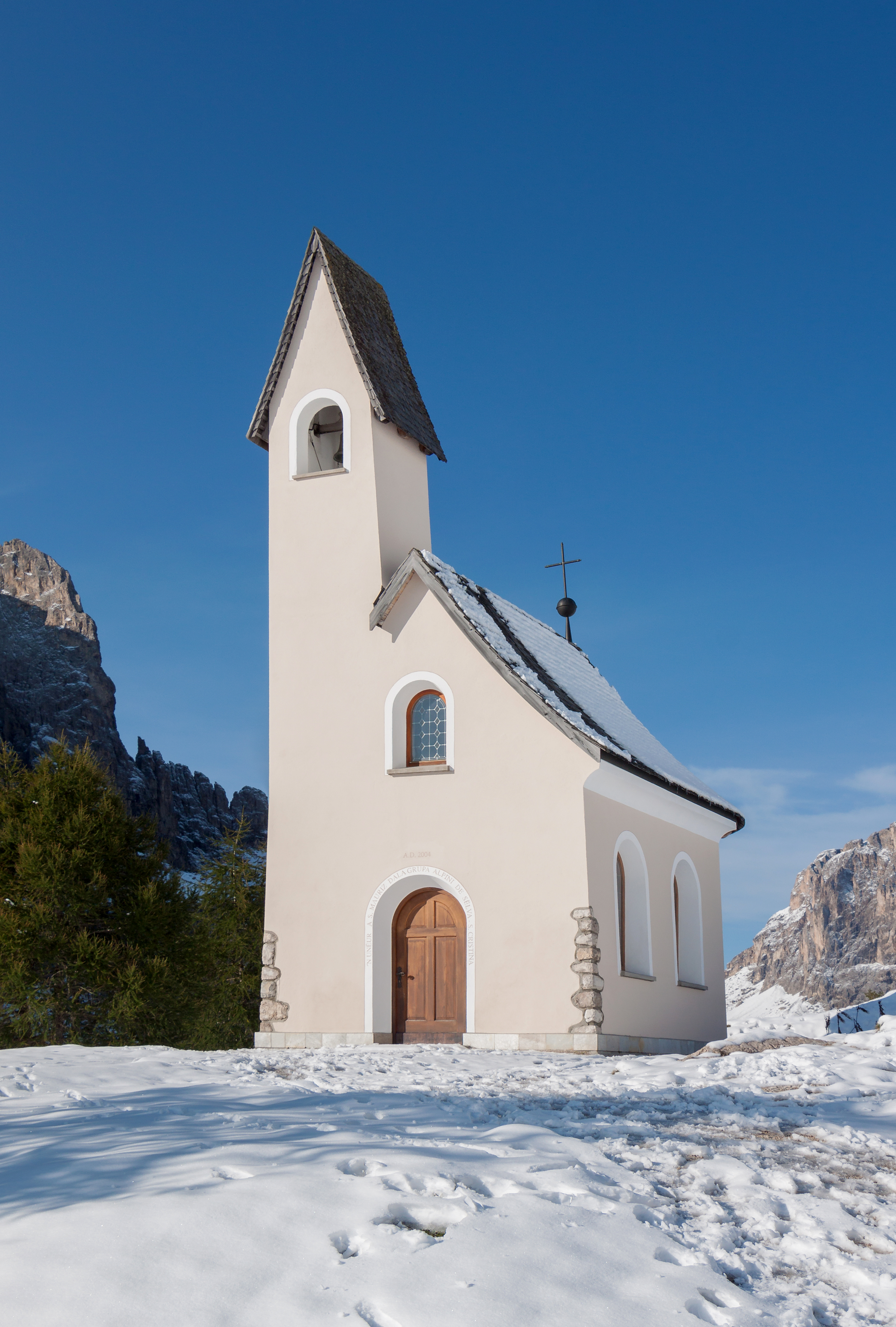 Capella di San Maurizio at the Gardena Pass, South Tyrol, Italy.